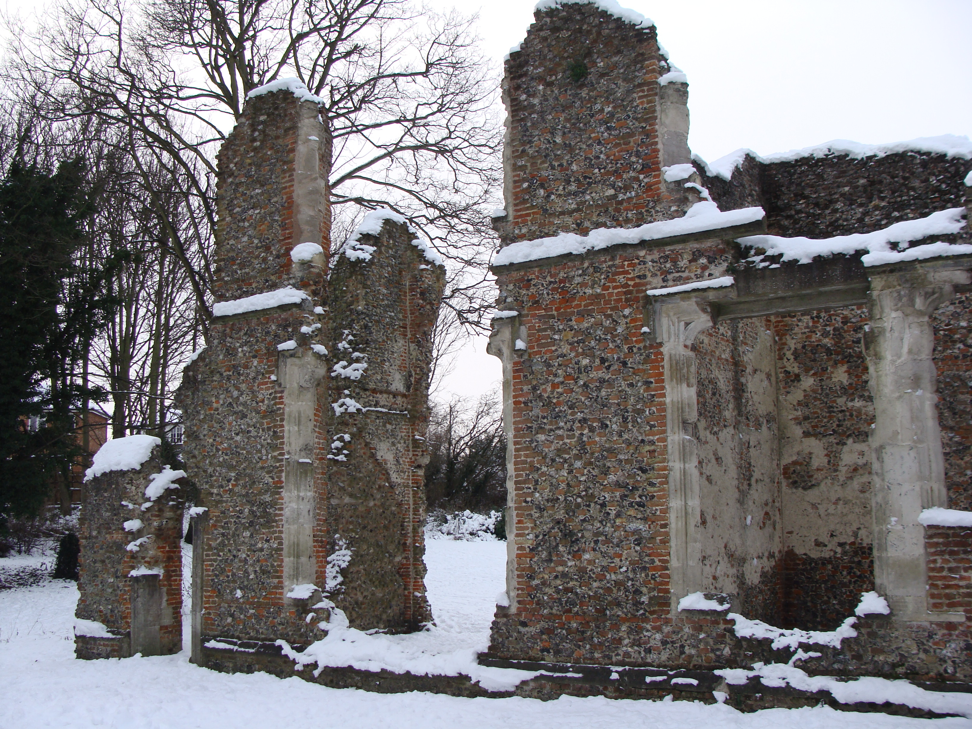 Part of the ruins of Lee House on the site of Sopwell Priory, St Albans, Hertfordshire, England